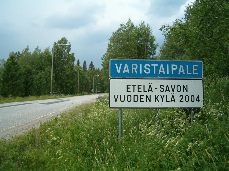 A sign on the regional road 542 showing the village Varistaipale, Heinävesi, Finland, which is the village of the year 2004 in Southern Savonia.